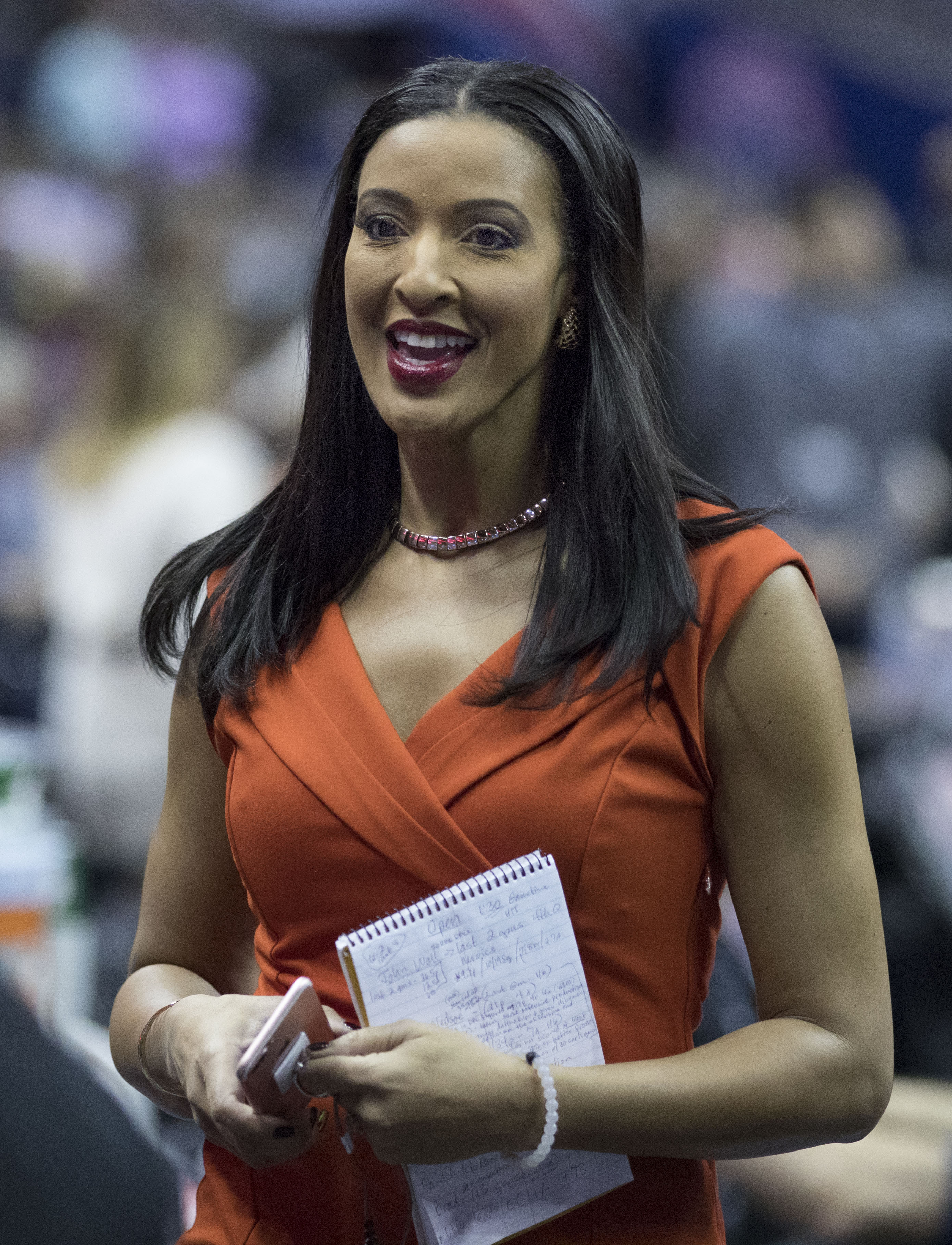 Bucks at Wizards 1/15/18